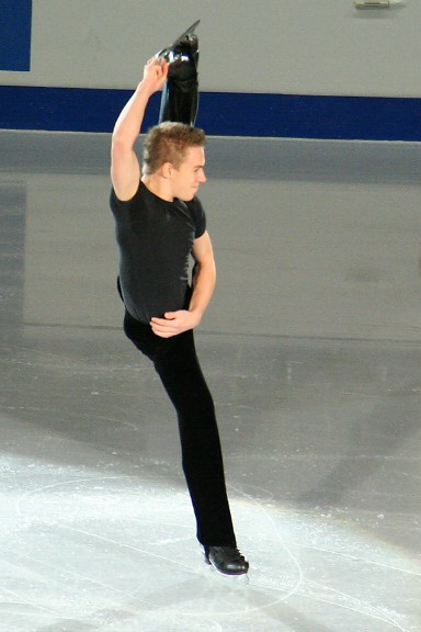 Shawn Sawyer performs a spiral during the exhibition at the 2006 Skate Canada International.